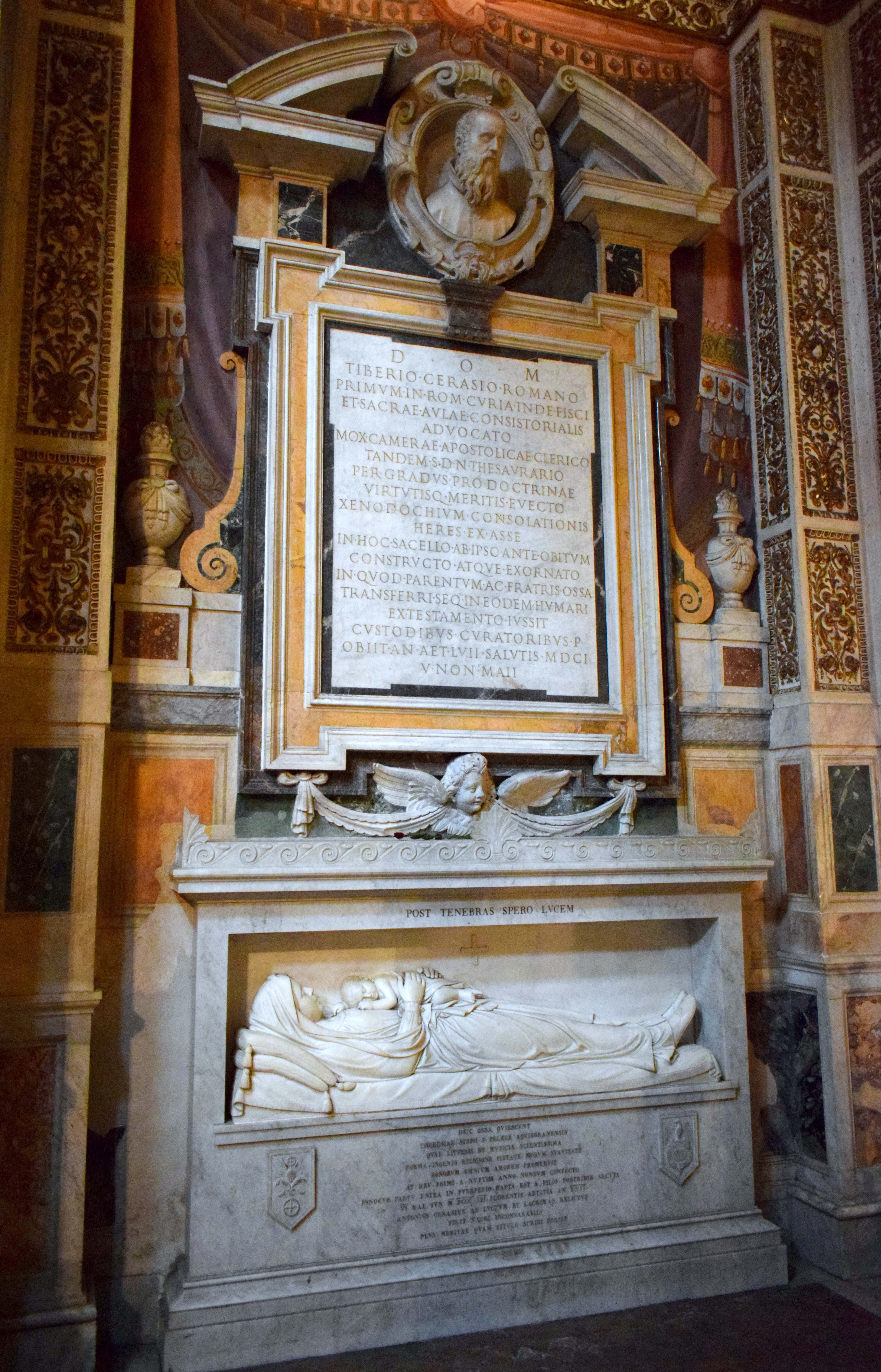 The tomb of Tiberio Cerasi (above) and the tomb of Teresa Pelzer in the Cerasi Chapel in Santa Maria del Popolo, Rome.